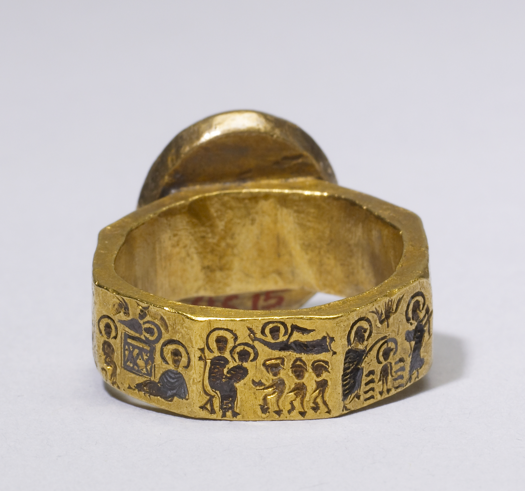 This rare, octagonal ring is decorated with eight scenes from the life of Christ, with the Ascension seen on the flat surface of the bezel (top). Protective powers were attributed to scenes of the life of Christ, which combine to form a prayer in pictures.